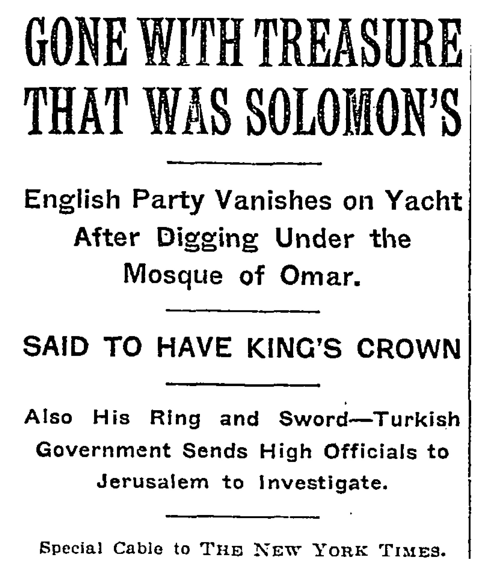 Title of an article published by the New York Times.